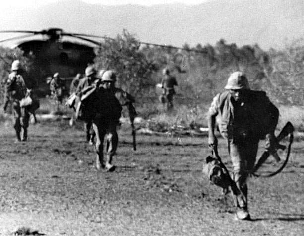 The Marines land on Toh Tang Island - 15 May 1975 Photo courtesy of USMC via A. Grandolini.